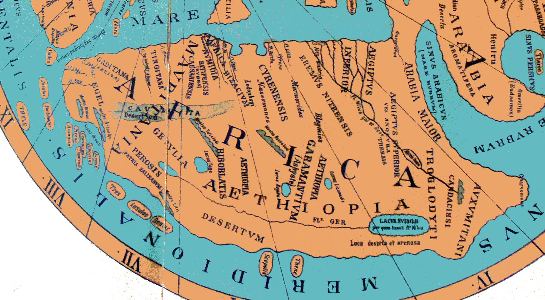 Weltkarte des anonymen Ravennaten Reconstruction of the Ravenna Cosmography c. 600 AD using Ravenna place name list and a Ptolemic map form.